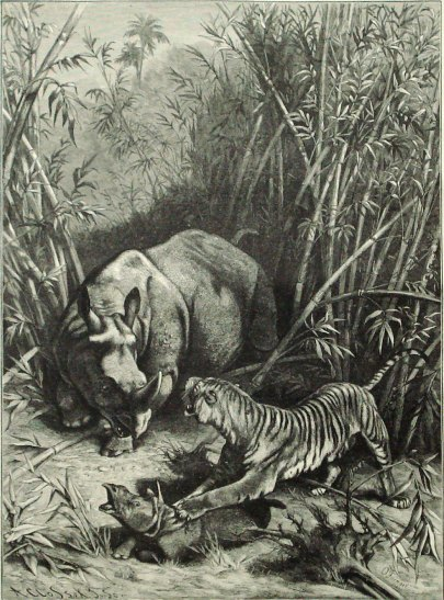 Javanese tiger (P. p. sondaica) attacks young rhino (Rhinoceros sondaicus).